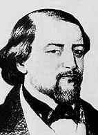 Jan Tyssowski